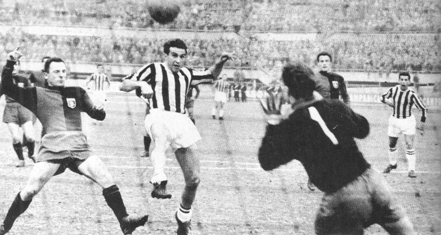 Turin (Italy), Communal Stadium, February 17, 1957. Juventus F.C. — Genoa C.F.C. 2-0, Matchday 20 of Italian League 1956–57 Serie A: Juventus' midfielder Raúl Conti (centre) in action.